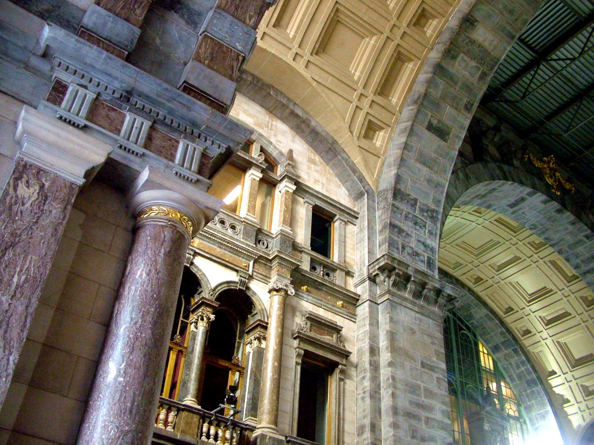 Antwerpen Central Station, interior